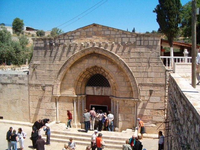 Mary's Tomb